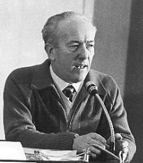 Guido Fubini in a conference